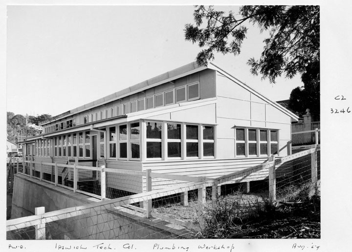 Ipswich Technical College Plumbing Workshop. (Original photo caption makes reference to Public Works Department)